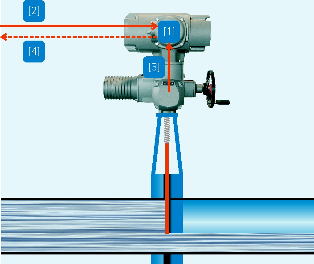 The positioner [1] is supplied with a setpoint [2] and an actual value [3]. The motor is controlled until the actual value is identical to the setpoint. The DCS generally needs a feedback signal [4].